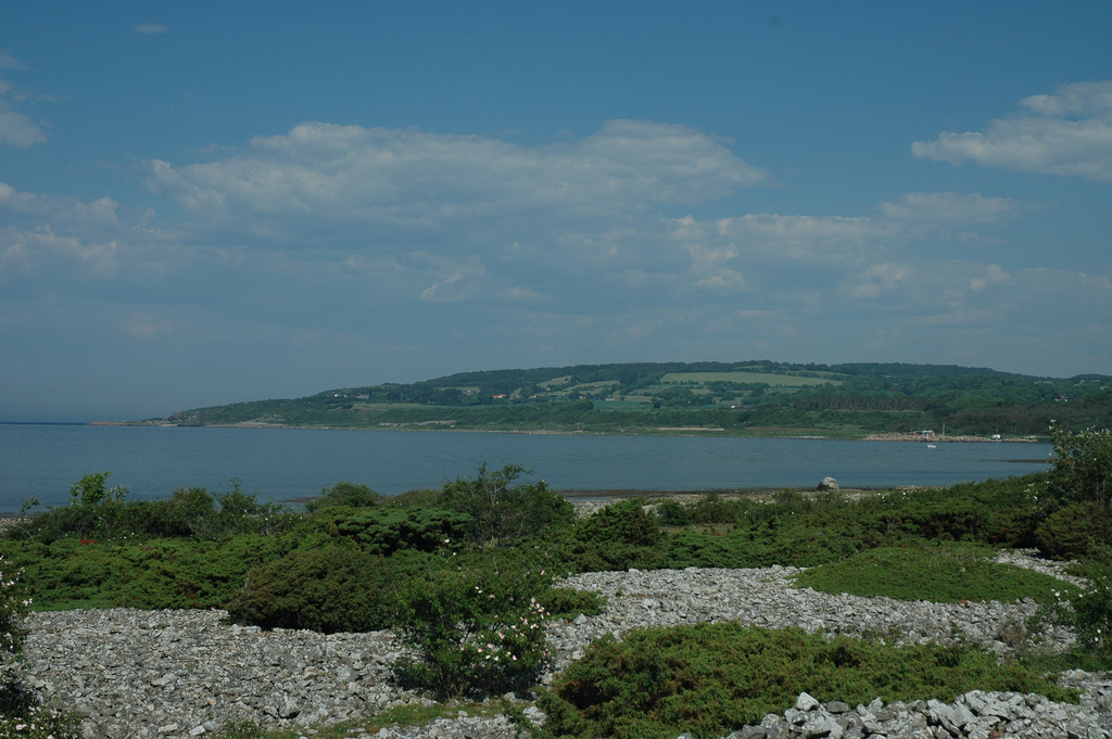 View of Hallandsås from north of Gröthögarna. Hovs hallar is the rocks on the other side of Hallandsås.